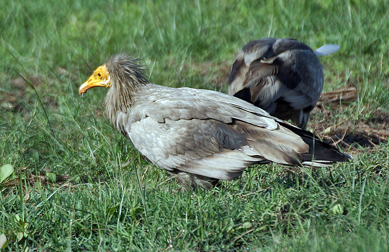 Egptian Vulture Neophron percnopterus at/ near Hodal in Faridabad District of Haryana, India.